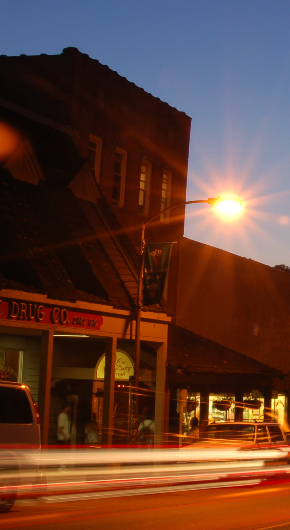 King Street, Boone, North Carolina on a beautiful summer evening just after dusk, looking west down King Street past Mast General Store and Boone Drug.